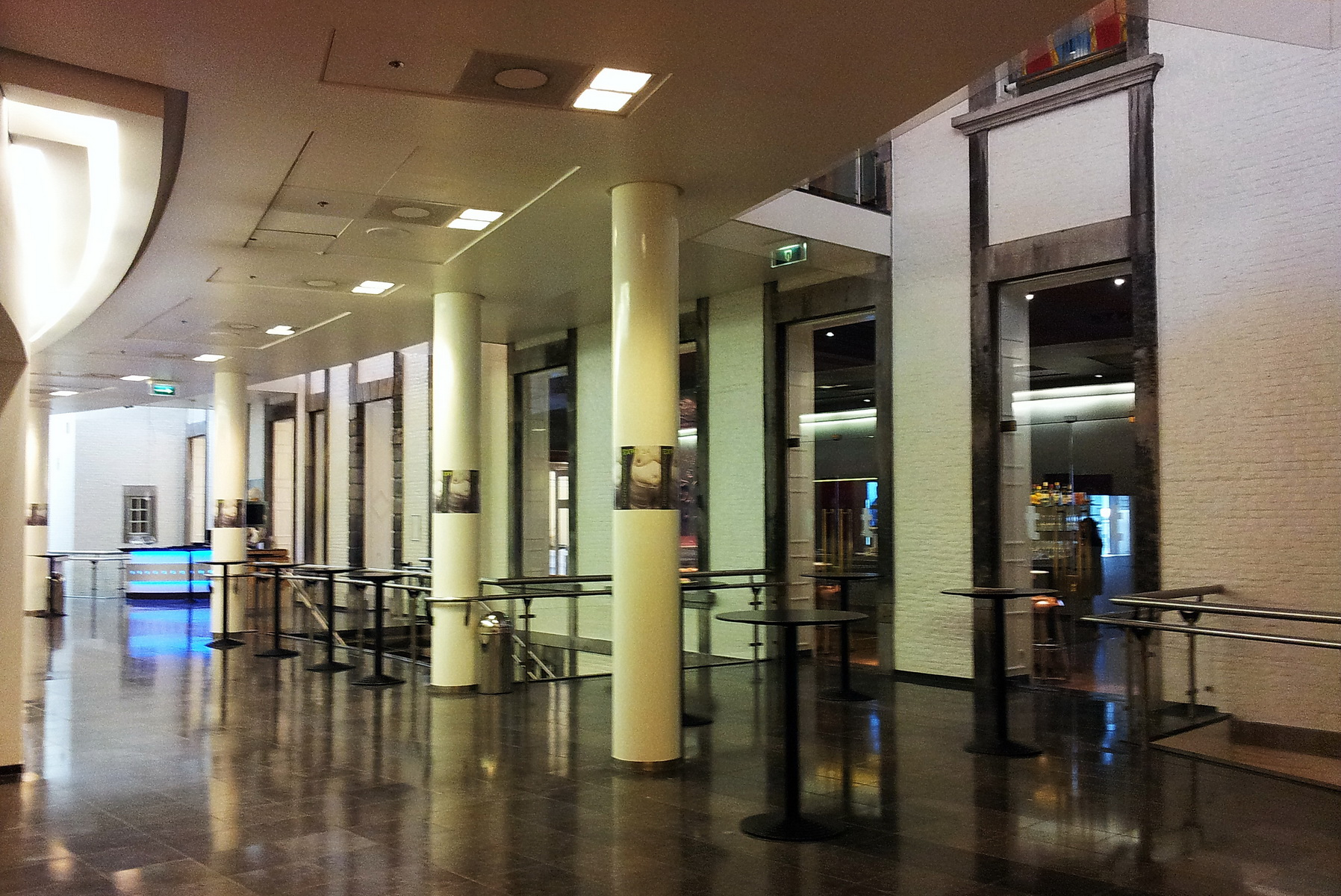 Maastricht, the Netherlands. One of the foyers of Theater aan het Vrijthof, the city's main theater at Vrijthof square. The 1805 Generaalshuis mansion (the west gable, once the back of the building, can be seen here) now serves as the entrance hall and theater cafe.